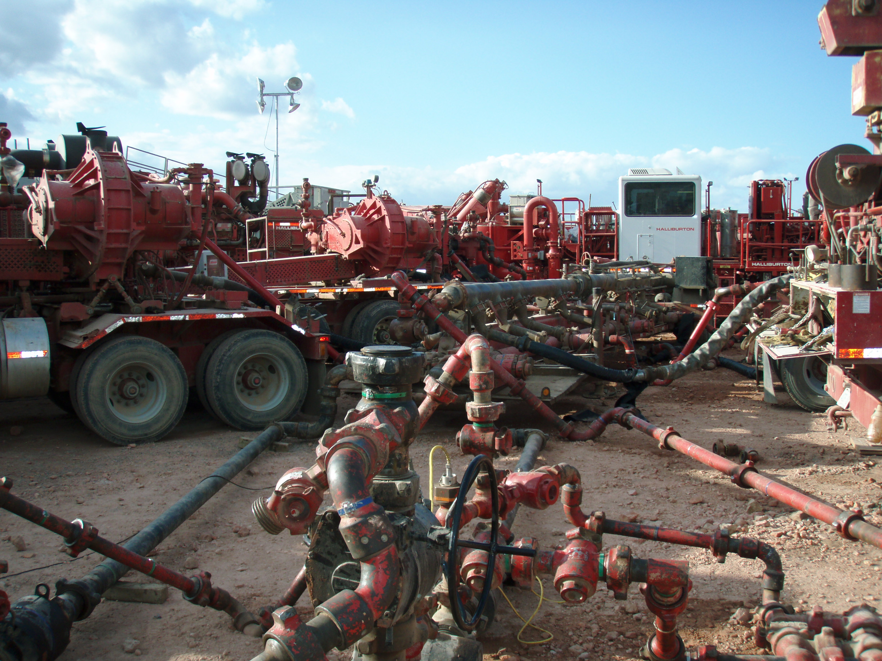 Halliburton Frack Job in the Bakken